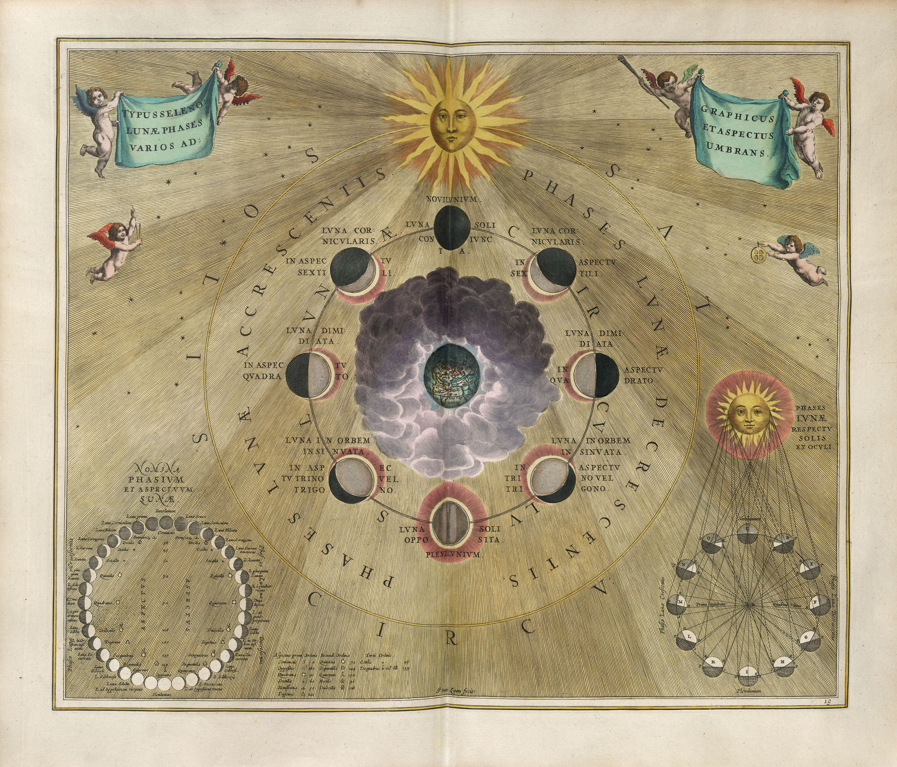 Andreas Cellarius: Harmonia macrocosmica seu atlas universalis et novus, totius universi creati cosmographiam generalem, et novam exhibens. Plate 19. TYPUS SELENOGRAPHICUS LUNÆ PHASES ET ASPECTUS VARIOS ADUMBRANS - Selenographic diagram depicting the varying phases and appearances of the Moon by (means of) shading.